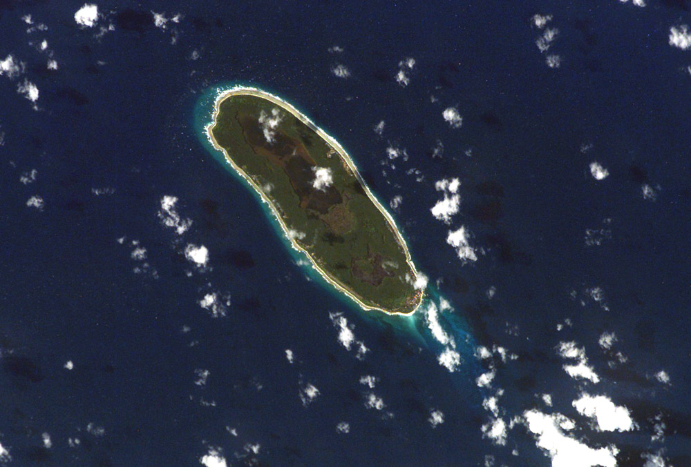 NASA astronaut image of Teraina (Washington Island), Line Islands, Kiribati